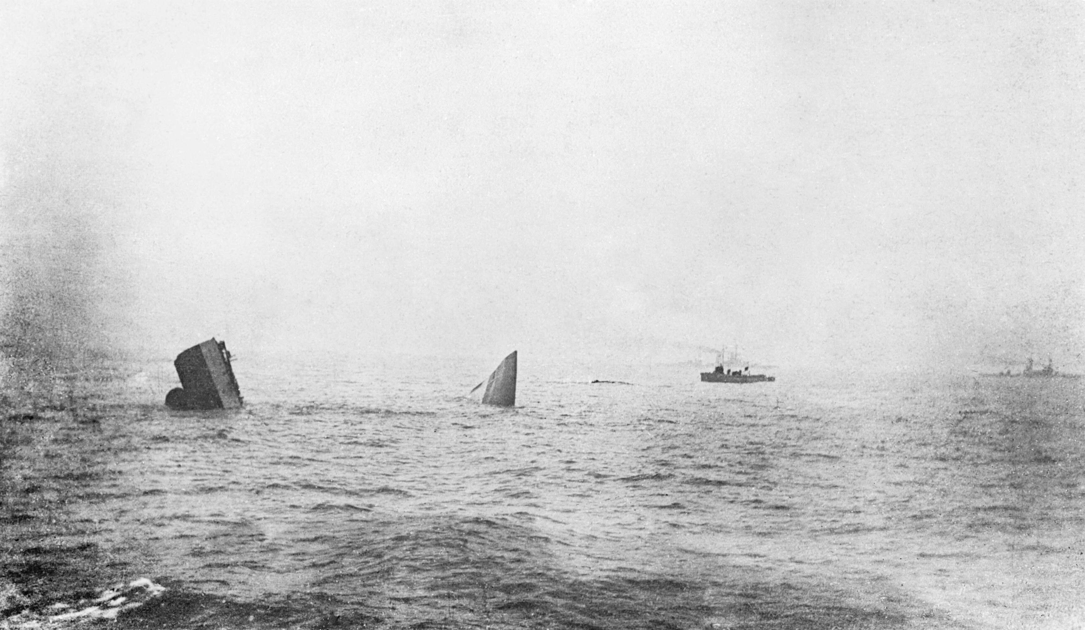 The bow and stern of HMS Invincible standing upright on the bed of the North Sea after being sunk during the Battle of Jutland.